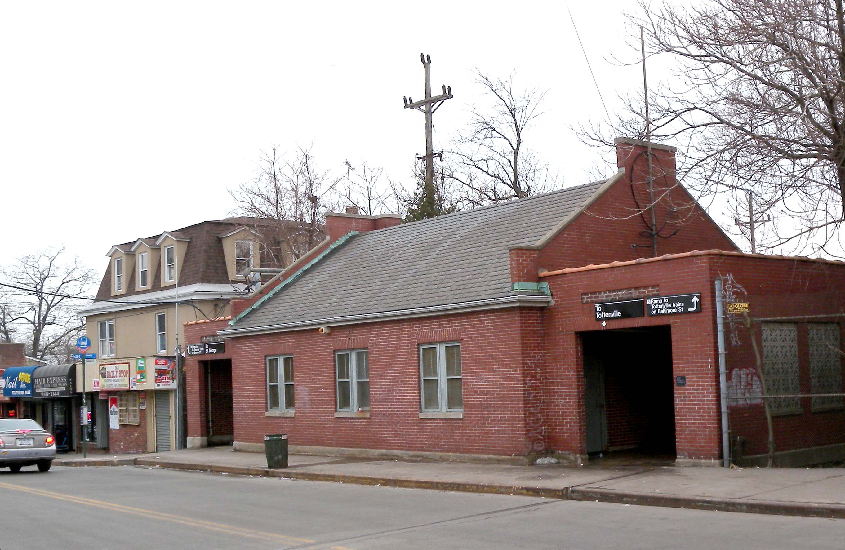 Looking southwest across Gilfords st at Great Kills (Staten Island Railway station) house on a cloudy afternoon.